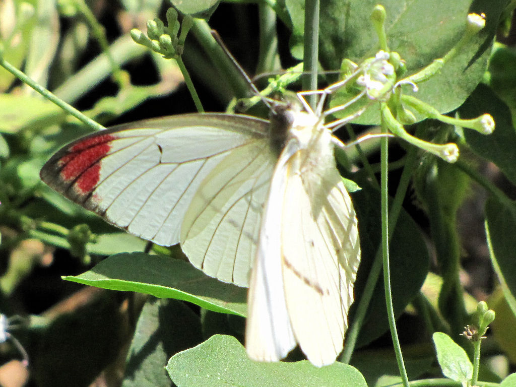 Crimson Tip (Colotis hetaera), Lake Manyara Park, Tanzania